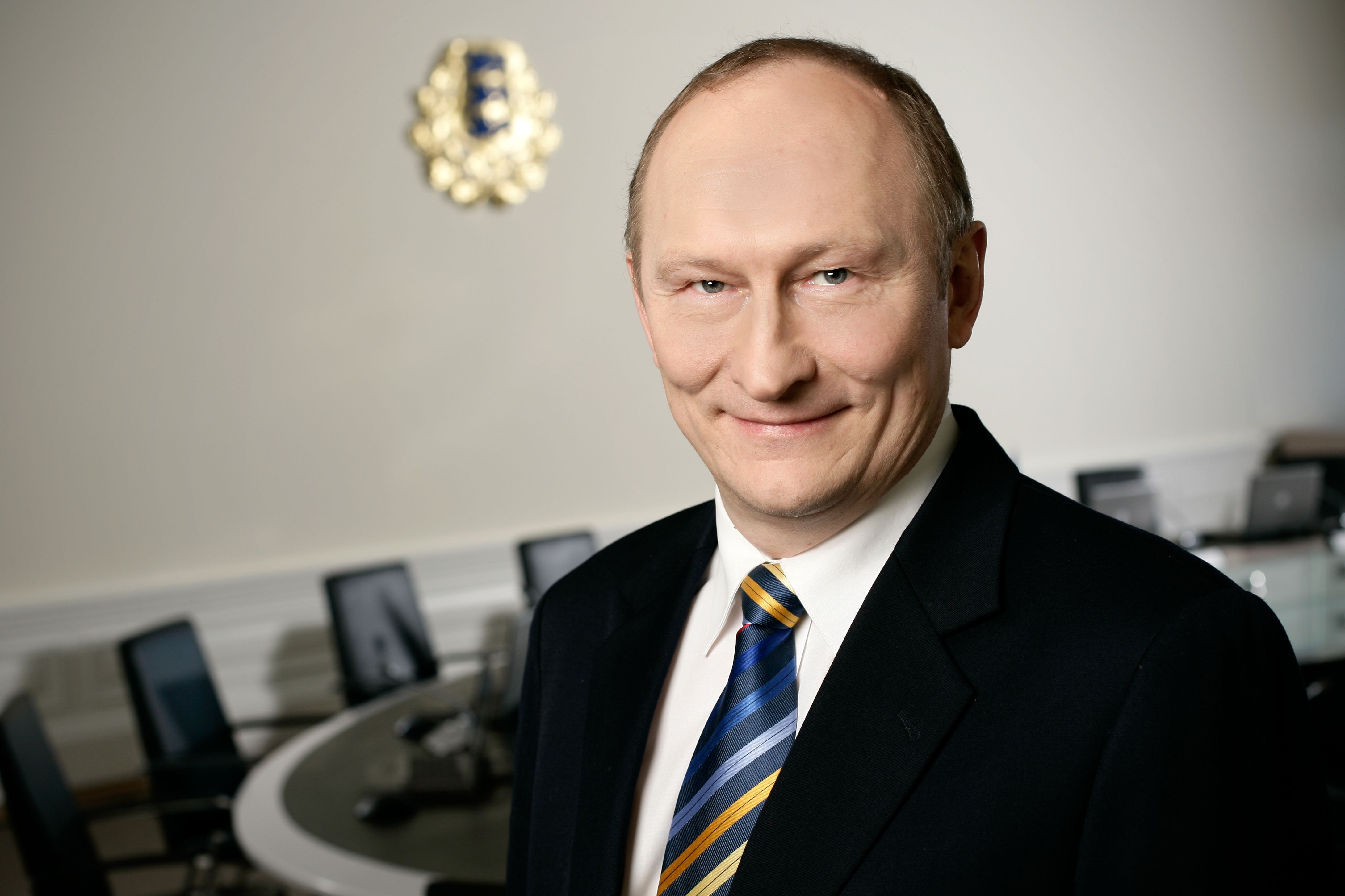 Jaak Aaviksoo